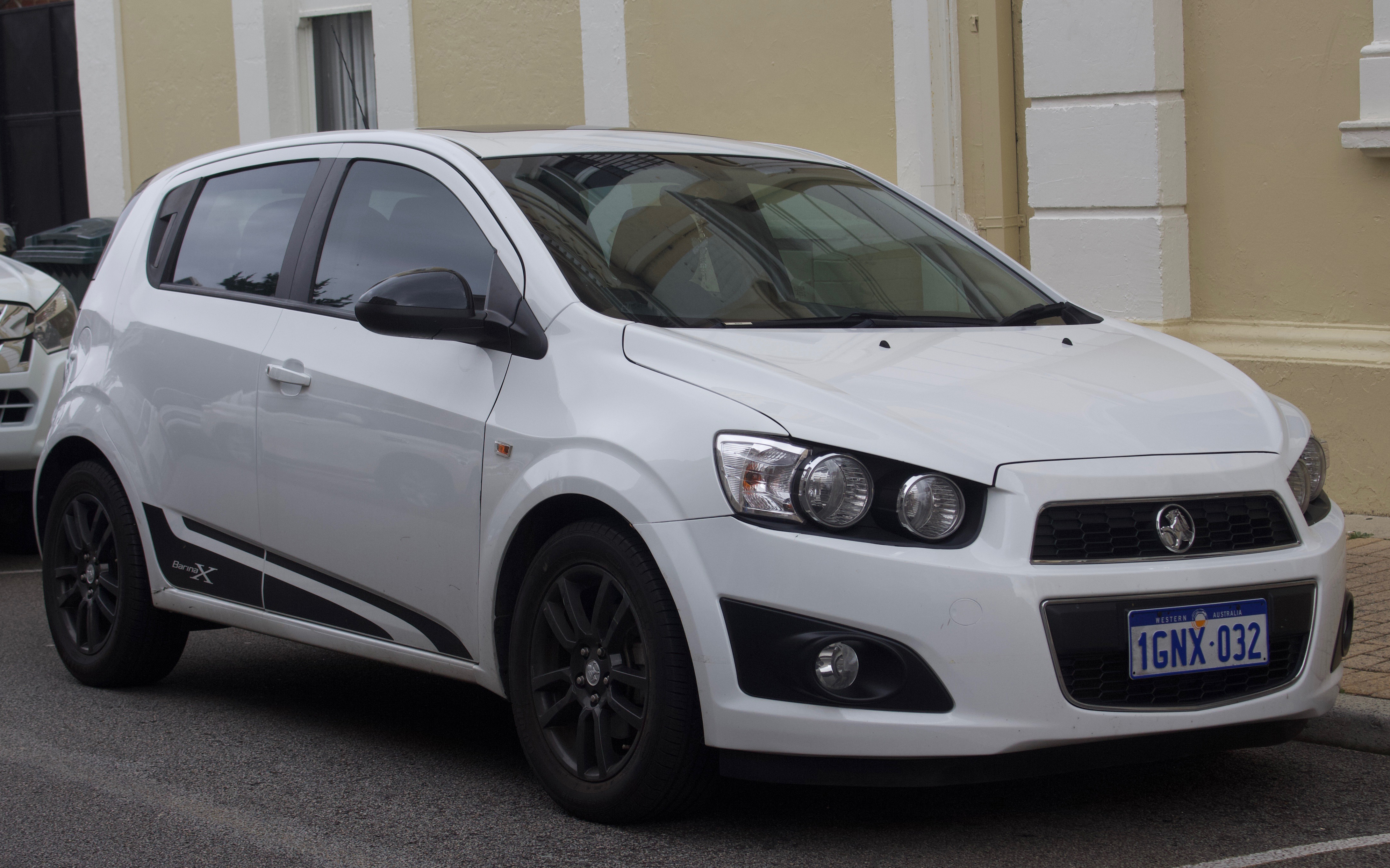 2015 Holden Barina (TM MY15) X Special Edition hatchback. Photographed in Fremantle, Western Australia. Note: Only 700 examples were ever produced, so is a rare sight on our roads.